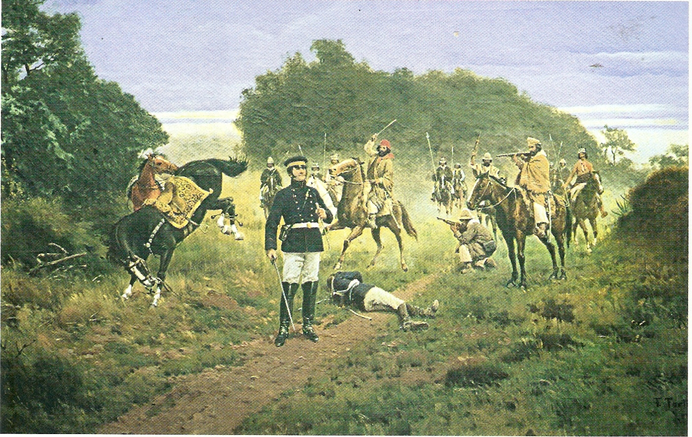 General José Maria Paz captured by Federal Army's militia en Córdoba province (1831).